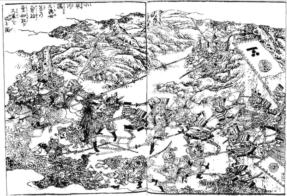 A Japanese depiction of an action of the siege of Ulsan (1597-98), when the Japanese launched a sortie wich caught the Chinese by surprise and delayed their attack on the city walls. The print comes from the Ehon Tai-Koki (Book of the Tales of the Regent), an illustrated biography of Toyotomi Hideyoshi.